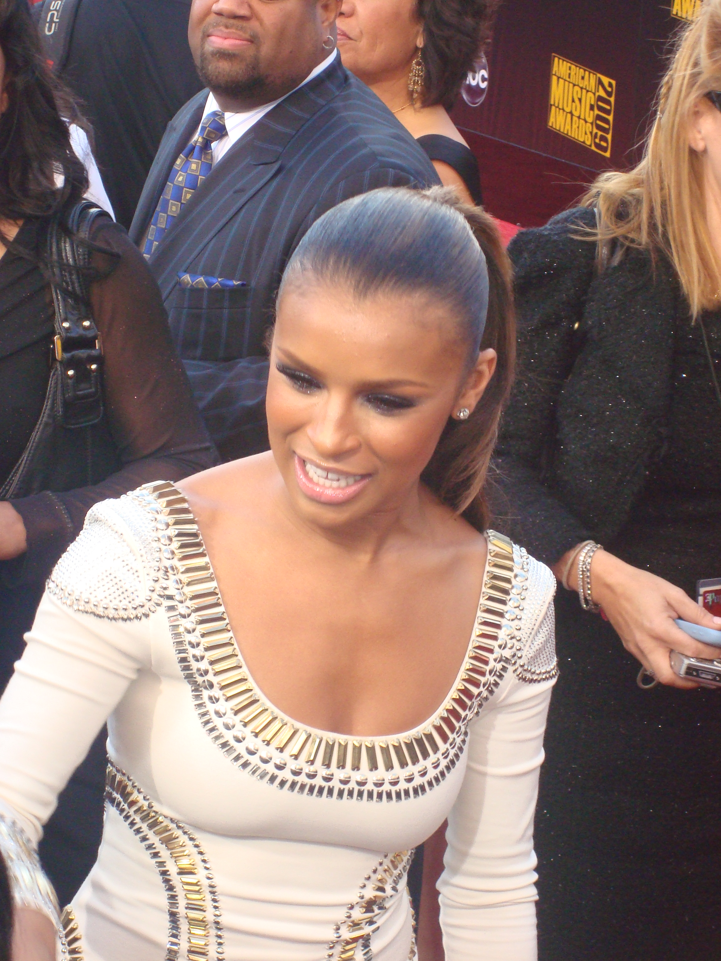 Melody Thornton at 2009 American Music Awards.